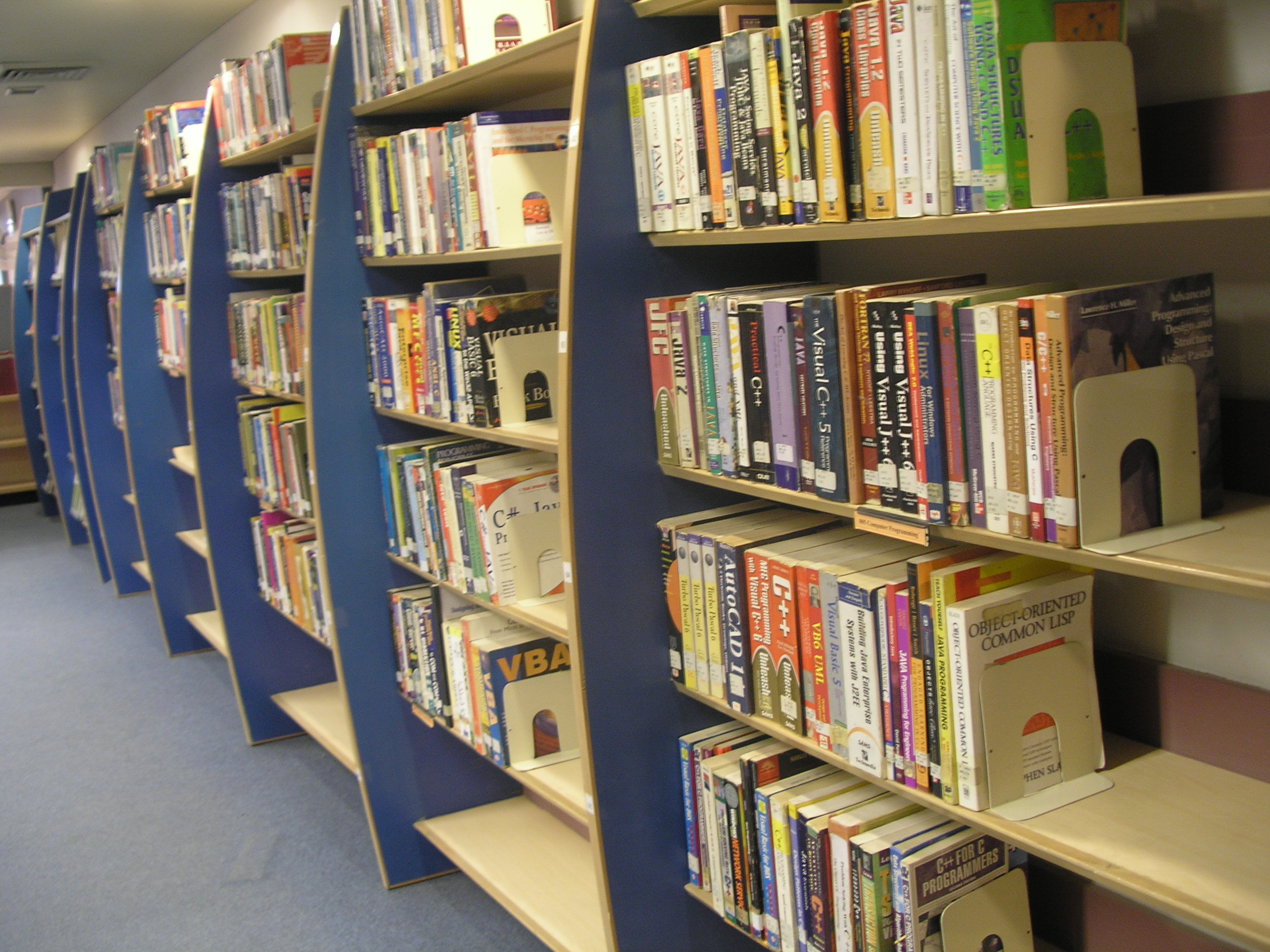 Library of Hamdard Institute of Information Technology, Karachi